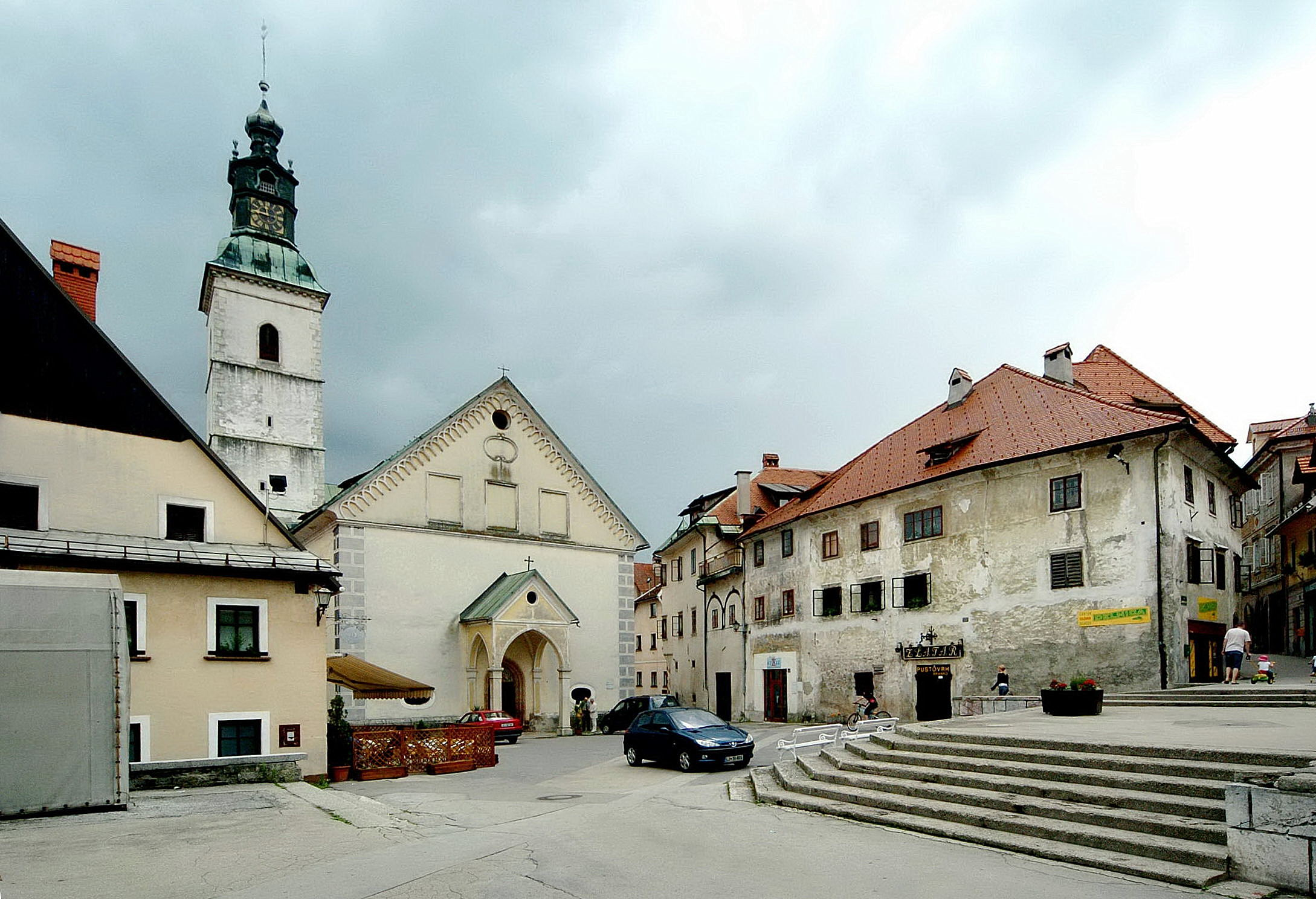 Saint James church in Škofja Loka, Gorenjska, Slovenia